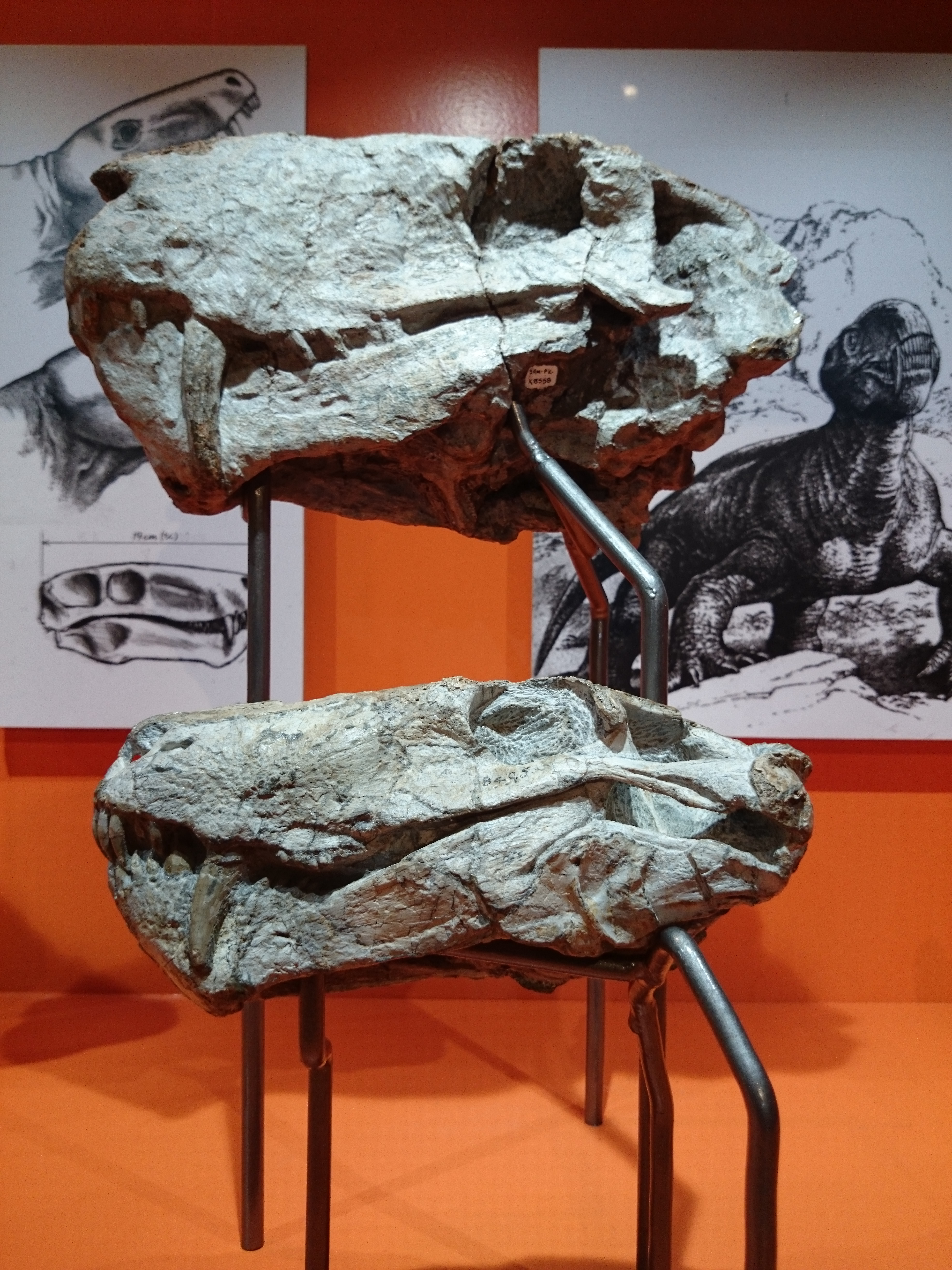 Gorgonops (Fierce looking) and Cyanosaurus (Dog-like reptile) - Fossil skulls of medium-sized gorgonopsians with their mouths firmly closed. Note how the stabbing canine slides down the outside of the lower jaw and the serrated front teeth of the top and bottom jaws interlock to increase the shredding action.